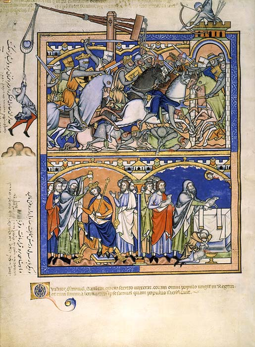 Saul Slaying Nahash and the Ammonites and Samuel Anoints Saul and Sacrifices to the Lord . Maciejowski Bible